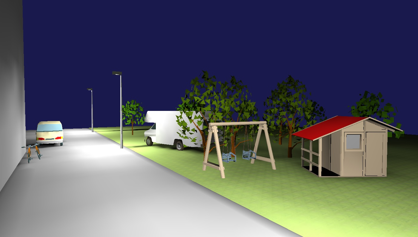 Outdoor scene modelled and calculated with Relux lighting software